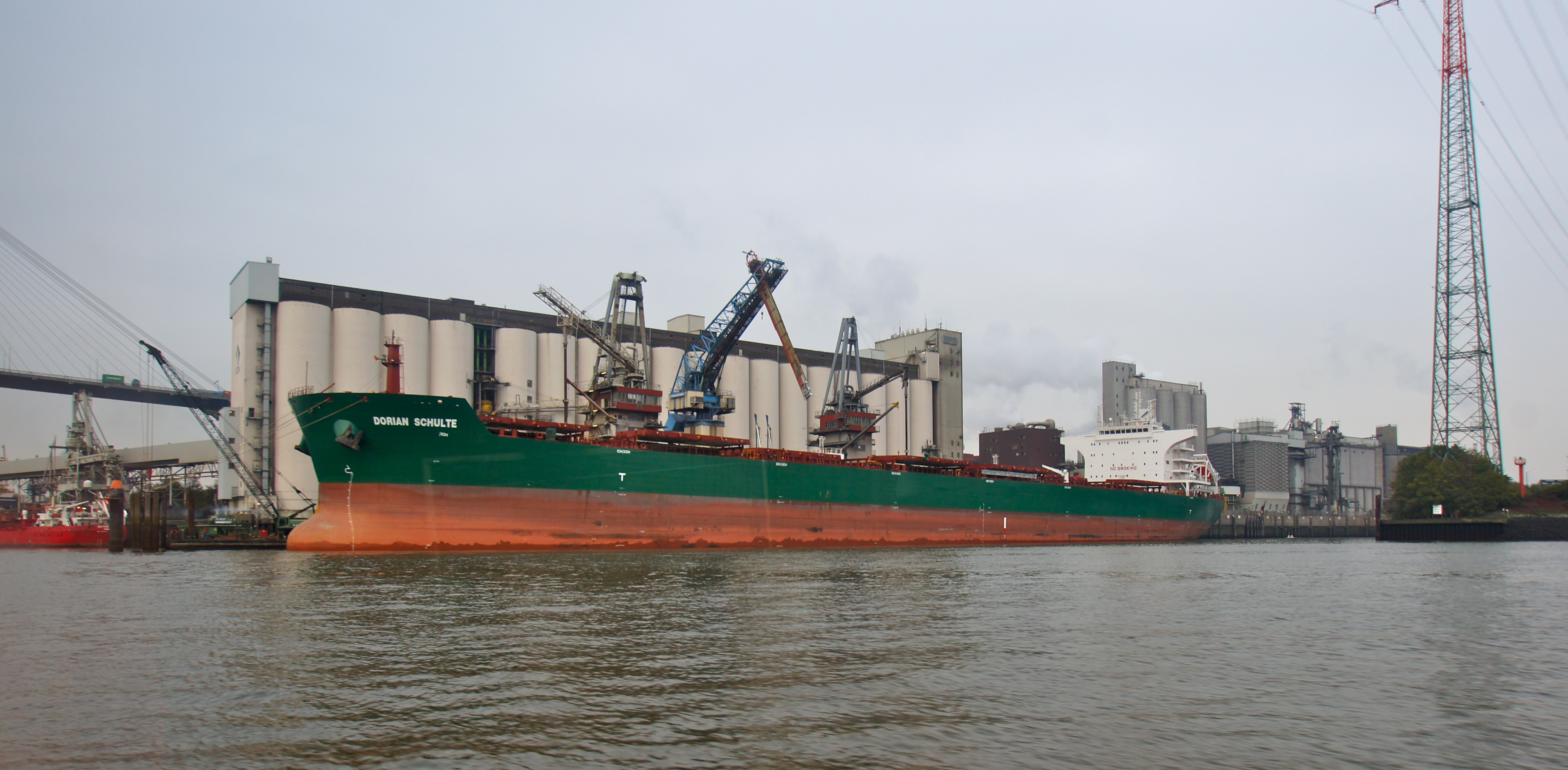 Hamburg (Wilhelmsburg), Germany: The Neuhöfer Kanal